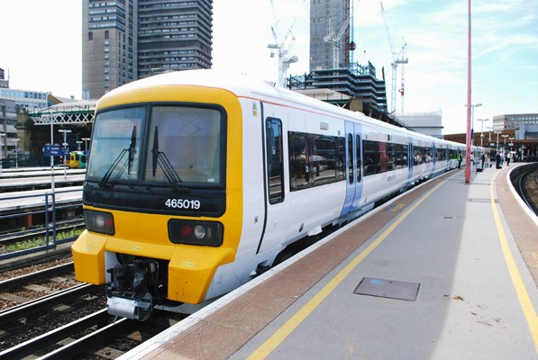 BREL/ABB (York) Class 465/0 "Networker" 750v dc 3rd rail suburban 4-car emu No.465 019 of South Eastern in revised SE livery without lower body grey and with light blue doors; at London Bridge, 06/10.